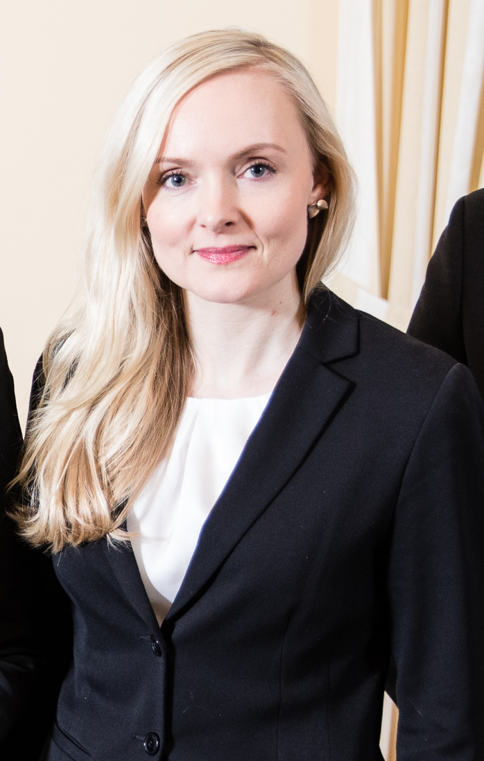 Group picture of the recently appointed Finnish Government Ministers under Prime Minister Sanna Marin